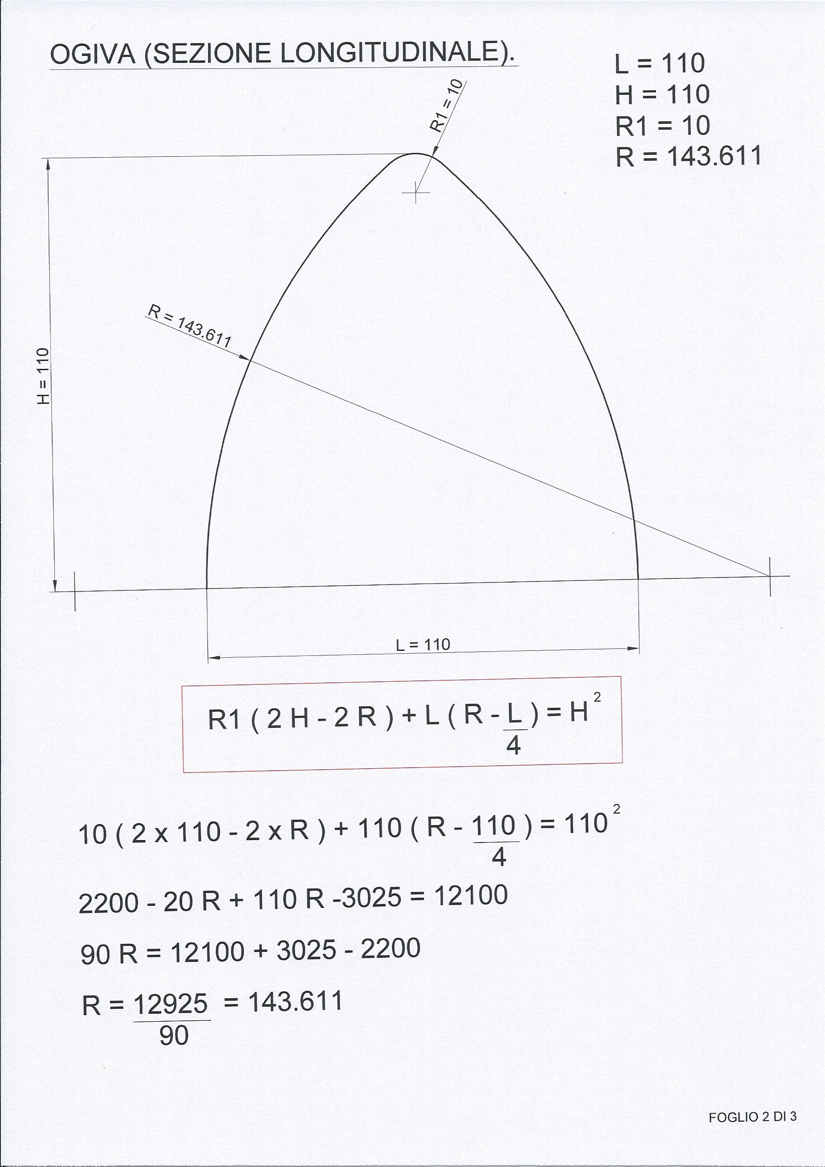 Calcolo dell'ogiva.